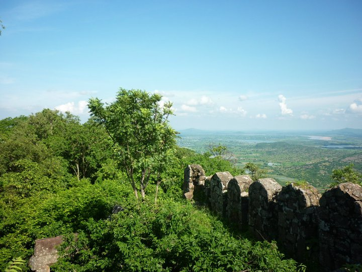 Ramagiri Fort Pictures